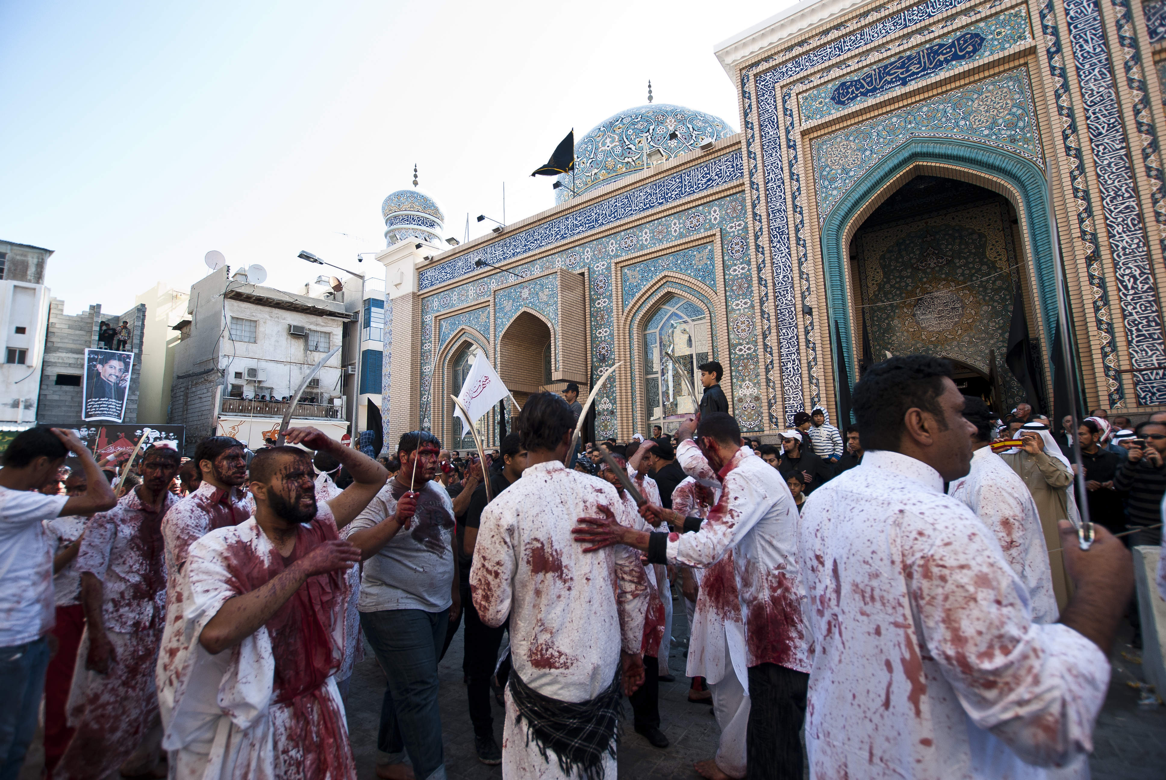 Shia Muslims commemorate the martyrdom of Hussein ibn Ali on the Day of Ashura during Sunni-Shia conflict in the early history of Islam. Muharram is the day of mourning. Shia march in the streets, self flagellating, flailing and beating themselves. The injury and blood during this festival of mourning serves as a reminder to Shia of the sacrifice and pain of Ali. Certain traditional flagellation rituals such as Talwar zani (talwar ka matam or sometimes tatbir) use a sword (shown above). Other rituals such as zanjeer zani or zanjeer matam involve the use of a zanjeer (a chain with blades). Moharram in Bahrain 2011.